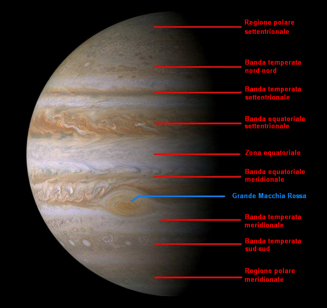 Annotated picture of Jupiter taken by the Cassini spacecraft (Credit NASA/JPL for original picture) For annotation: Jupiter|Belts